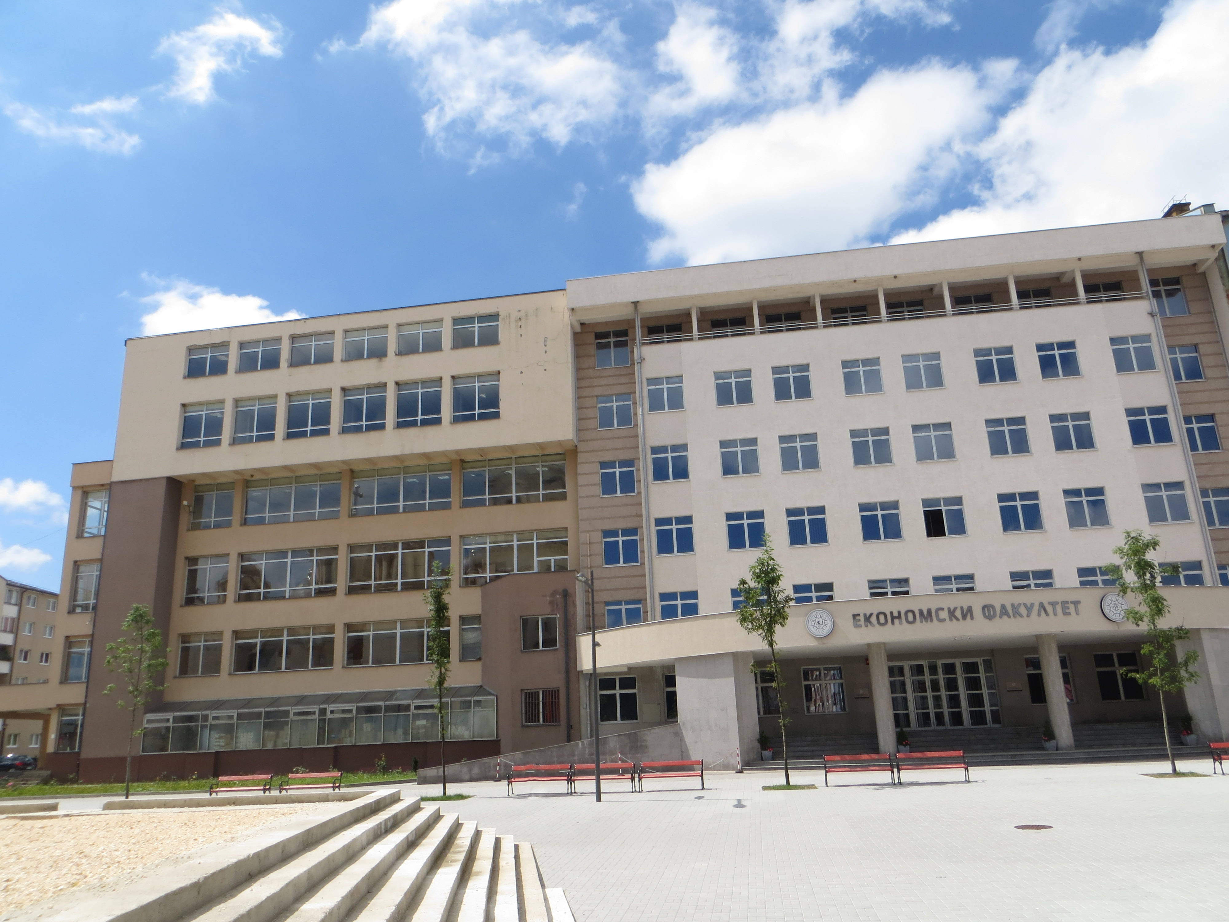 University building, Pale